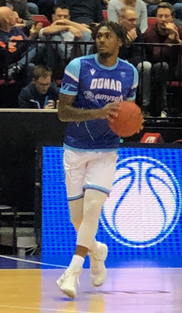 Donte Thomas of Donar Groningen.